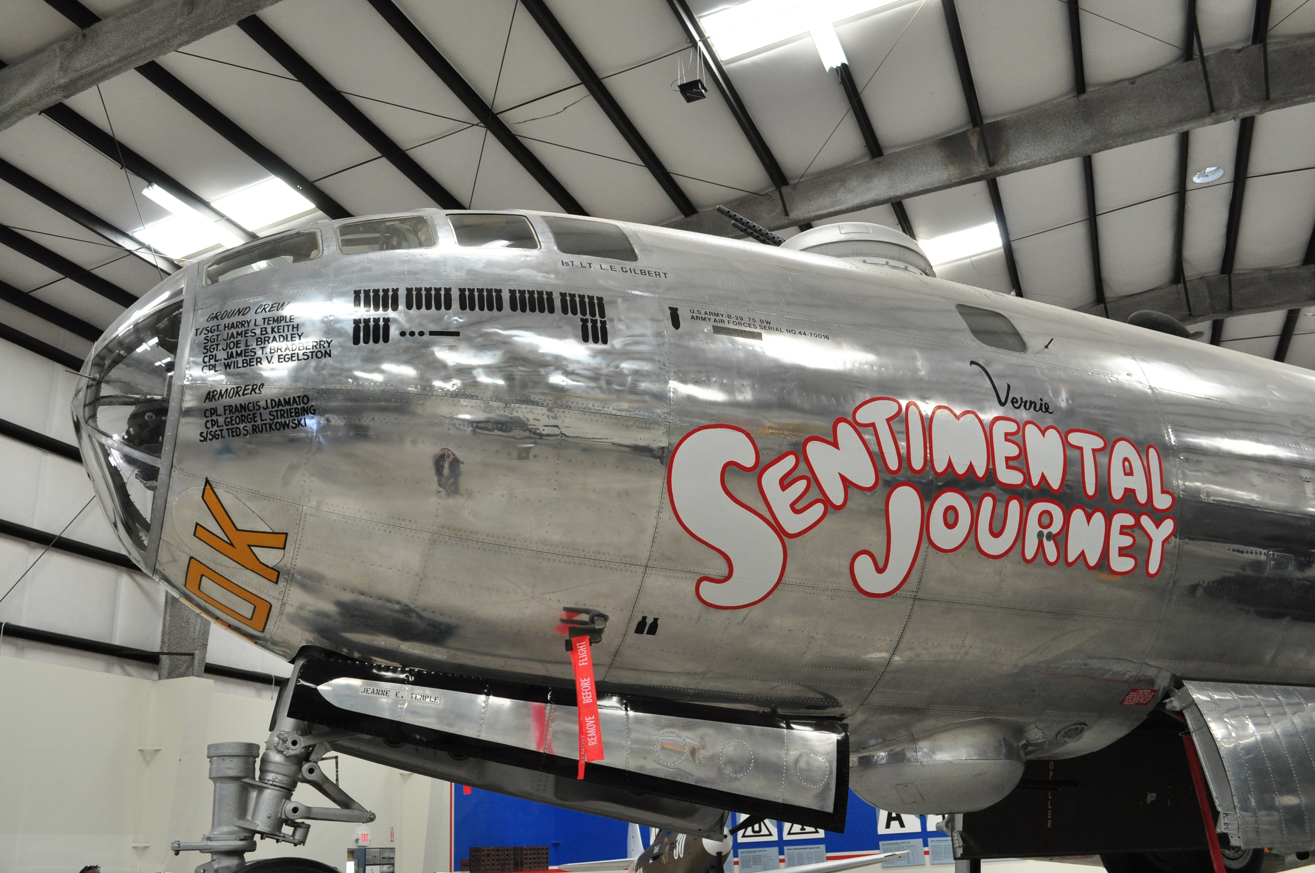 330th Bomb Group, K-40, "Quaker City," "Sentimental Journey," Guam USAF PIMA